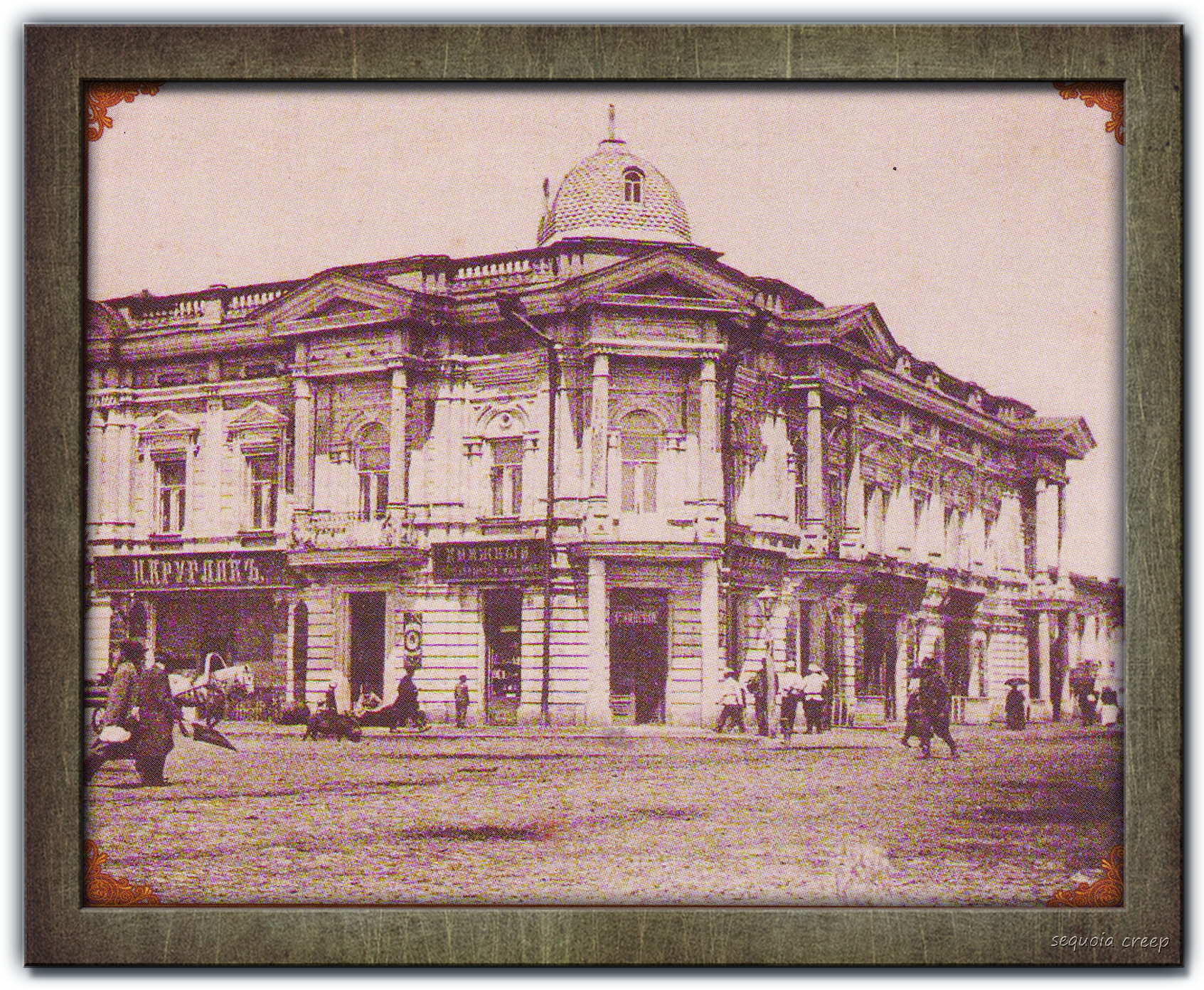 Litvinskiy house